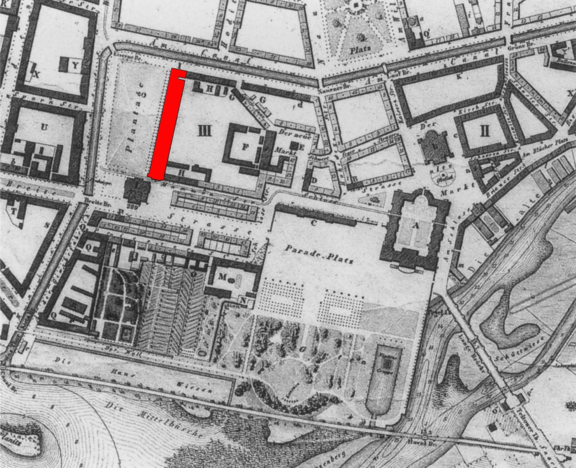 Map of Potsdam (detail), ca. 1850